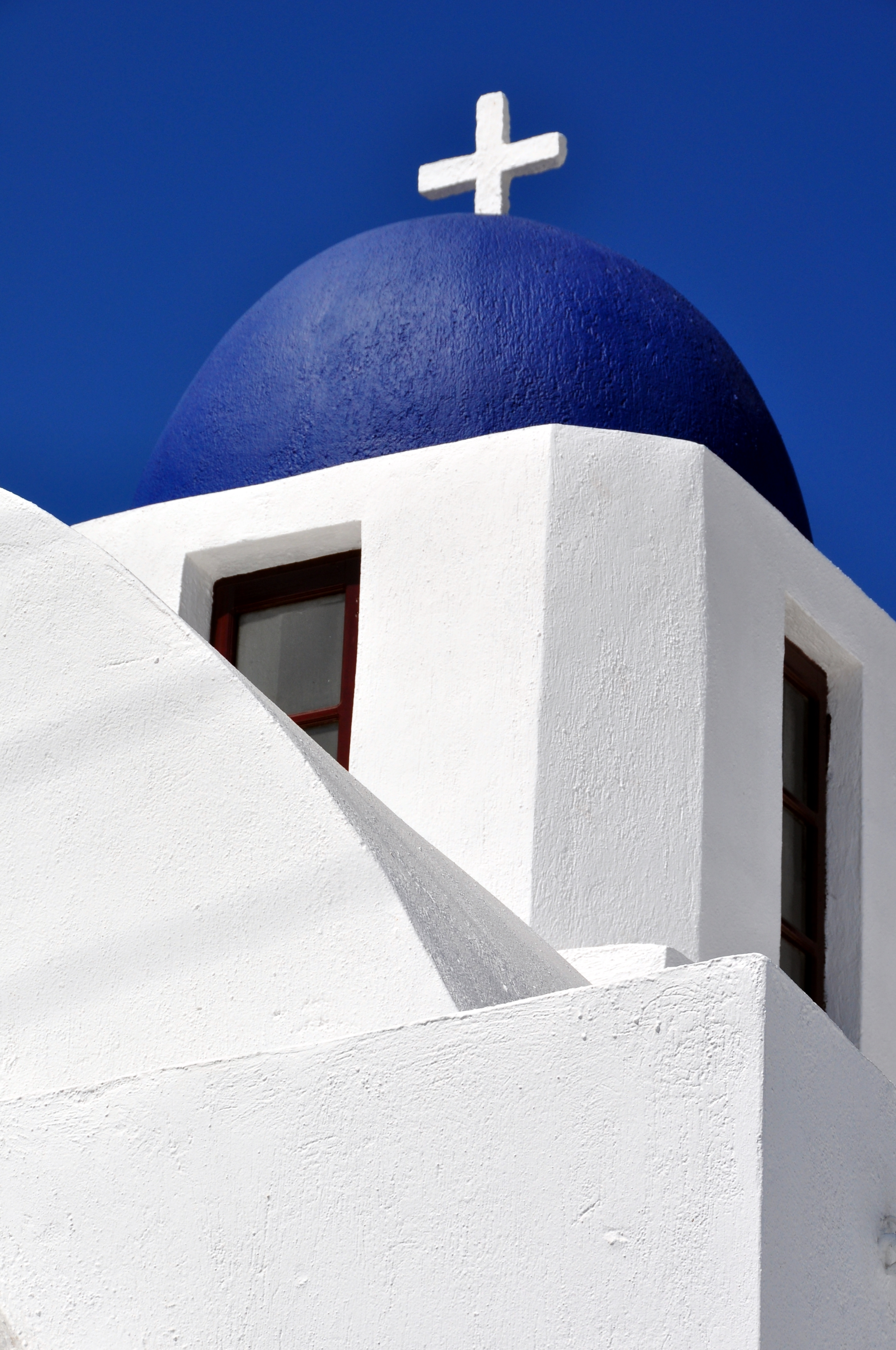 Blue Domed Church